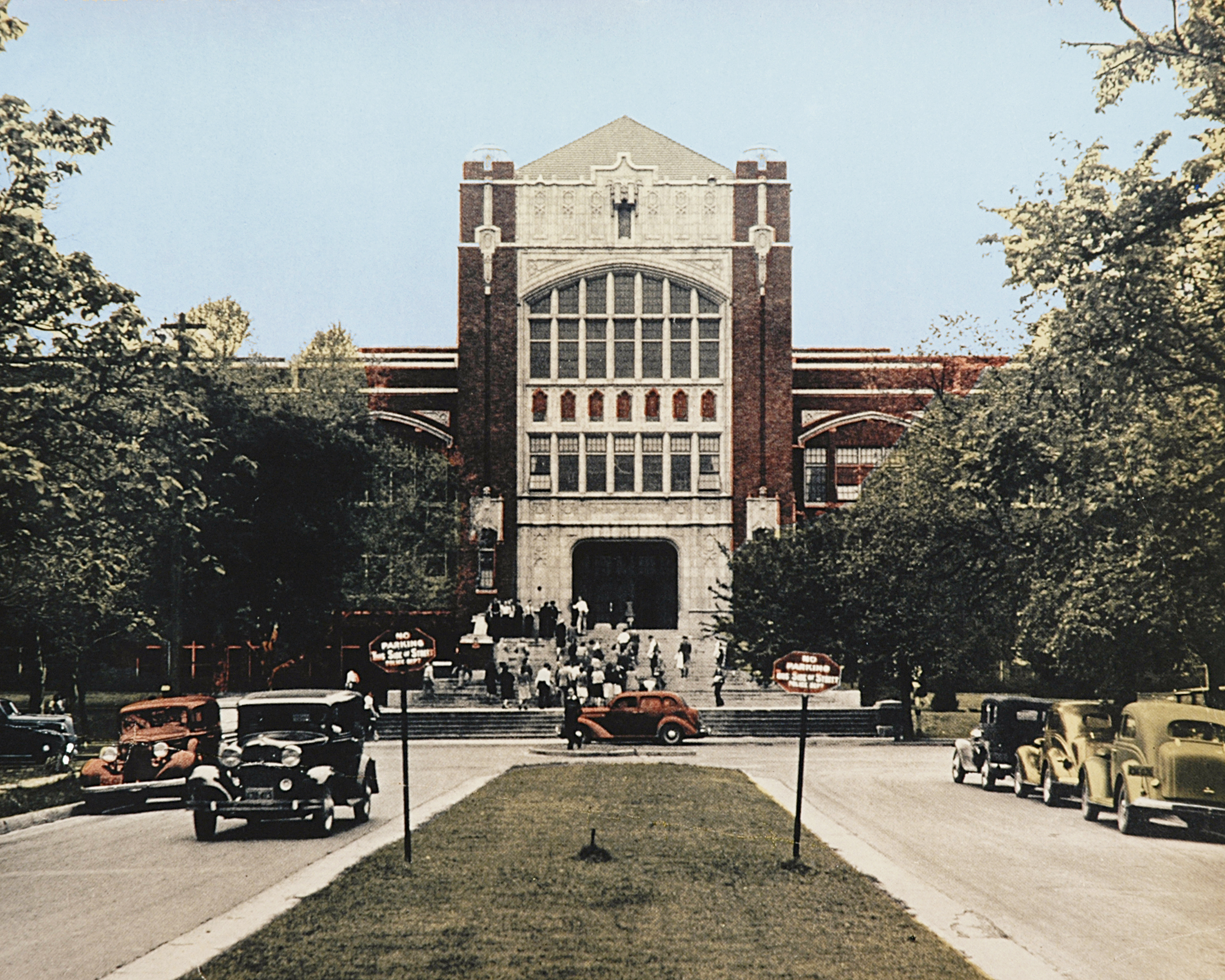 An undated photograph of Green B. Trimble Technical High School in Fort Worth, Texas, USA